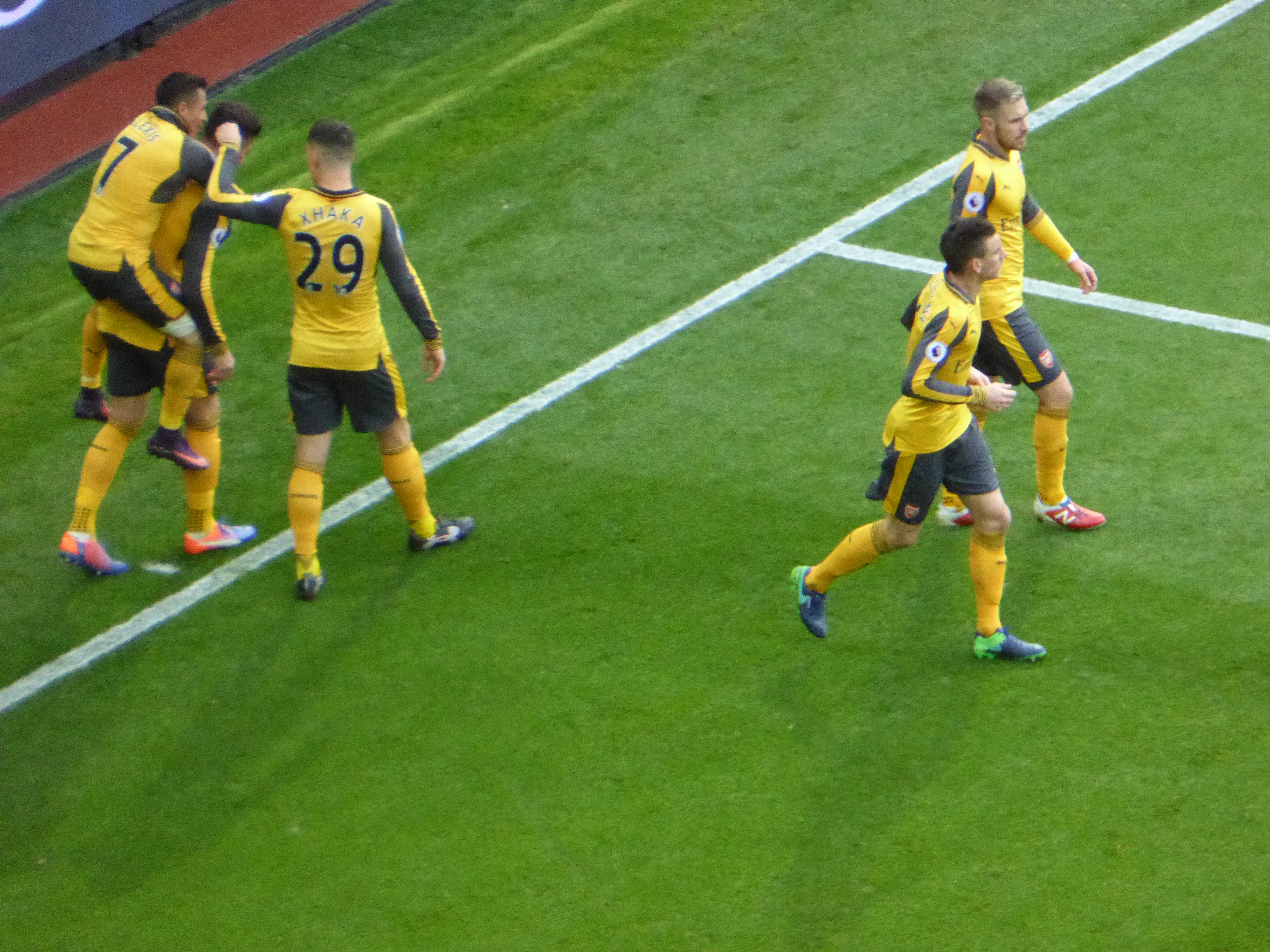 Manchester United v Arsenal (1-1), Premier League, Old Trafford, Manchester, Greater Manchester, England, 19 November 2016